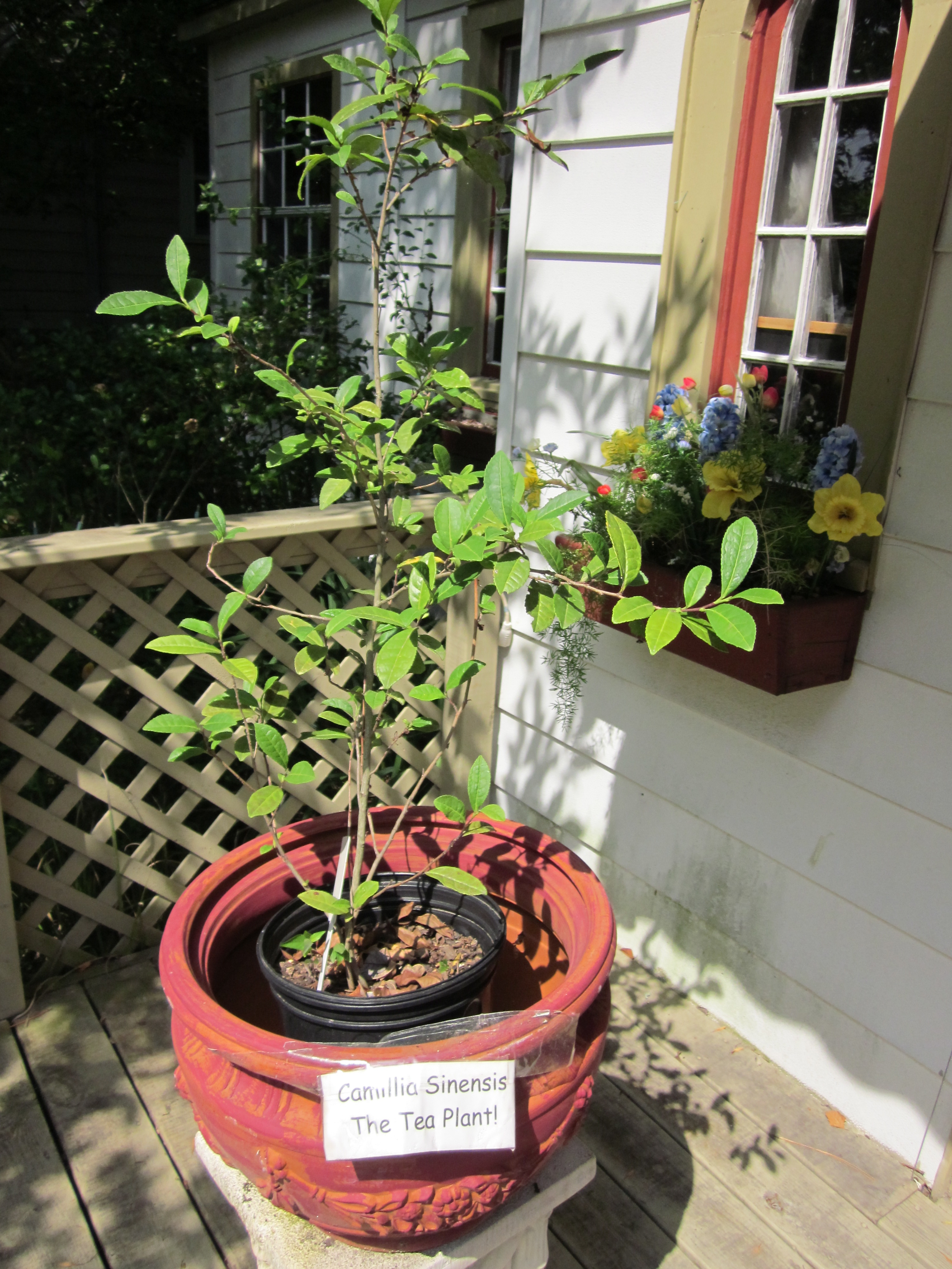 Tea plant growing in pot on front porch of tea shop & restaurant, Mandeville, Louisiana.